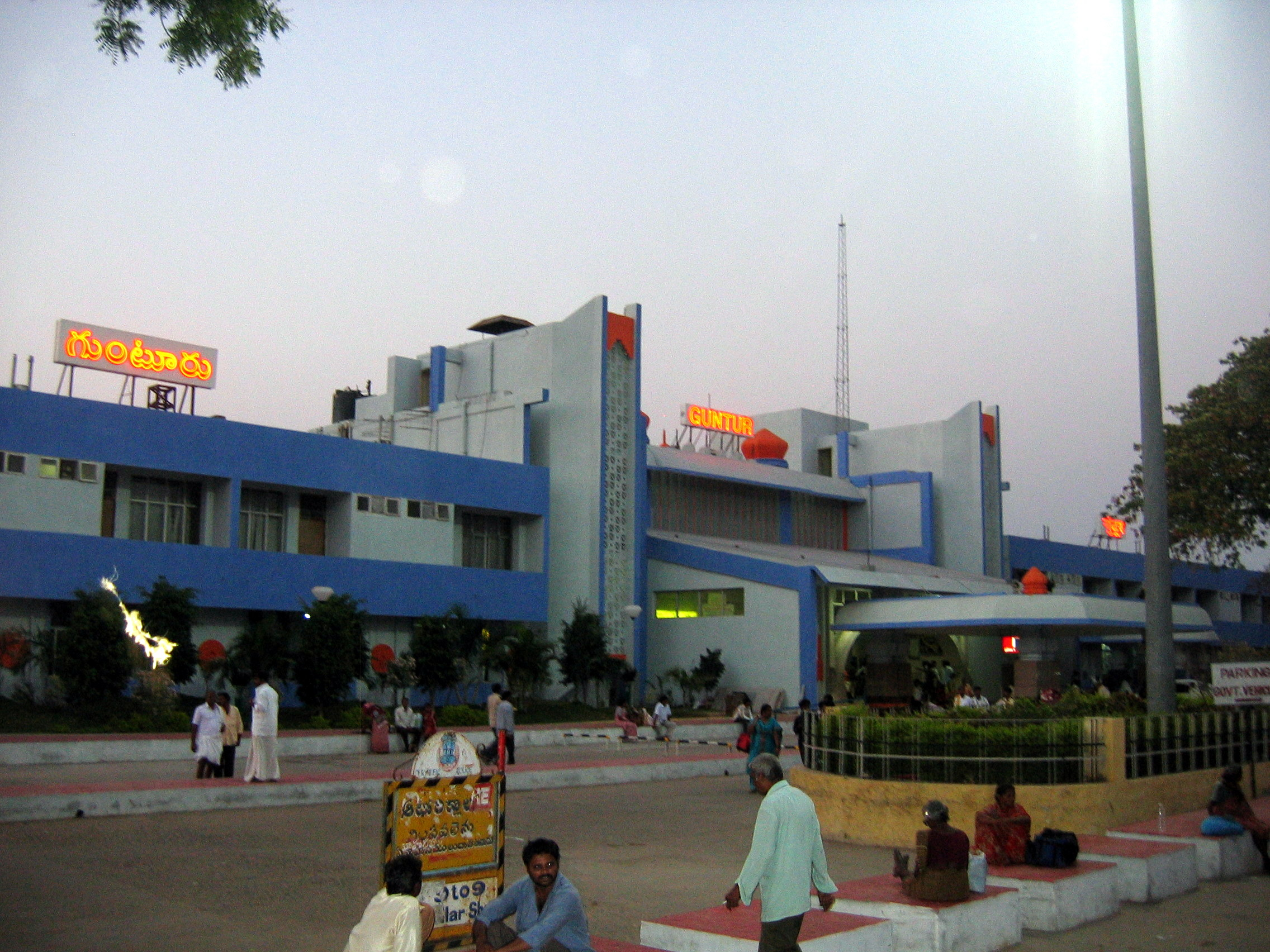 The central train station in the city of Guntur, India. File:34836526.jpg